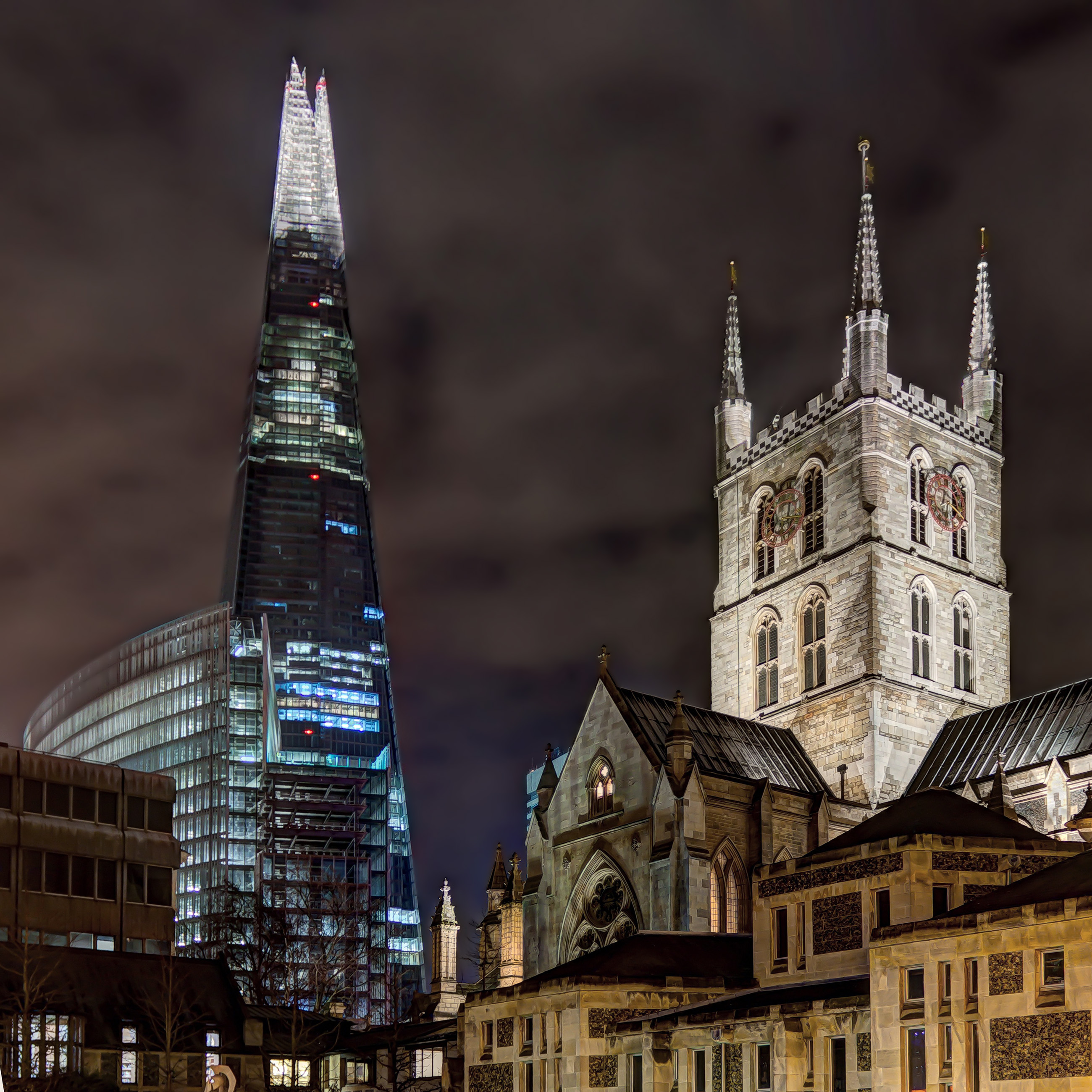 The Shard and Southwark Cathedral, view from Montague Close